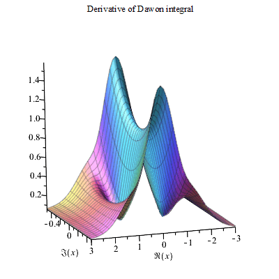 Derivative of Dawson Integral